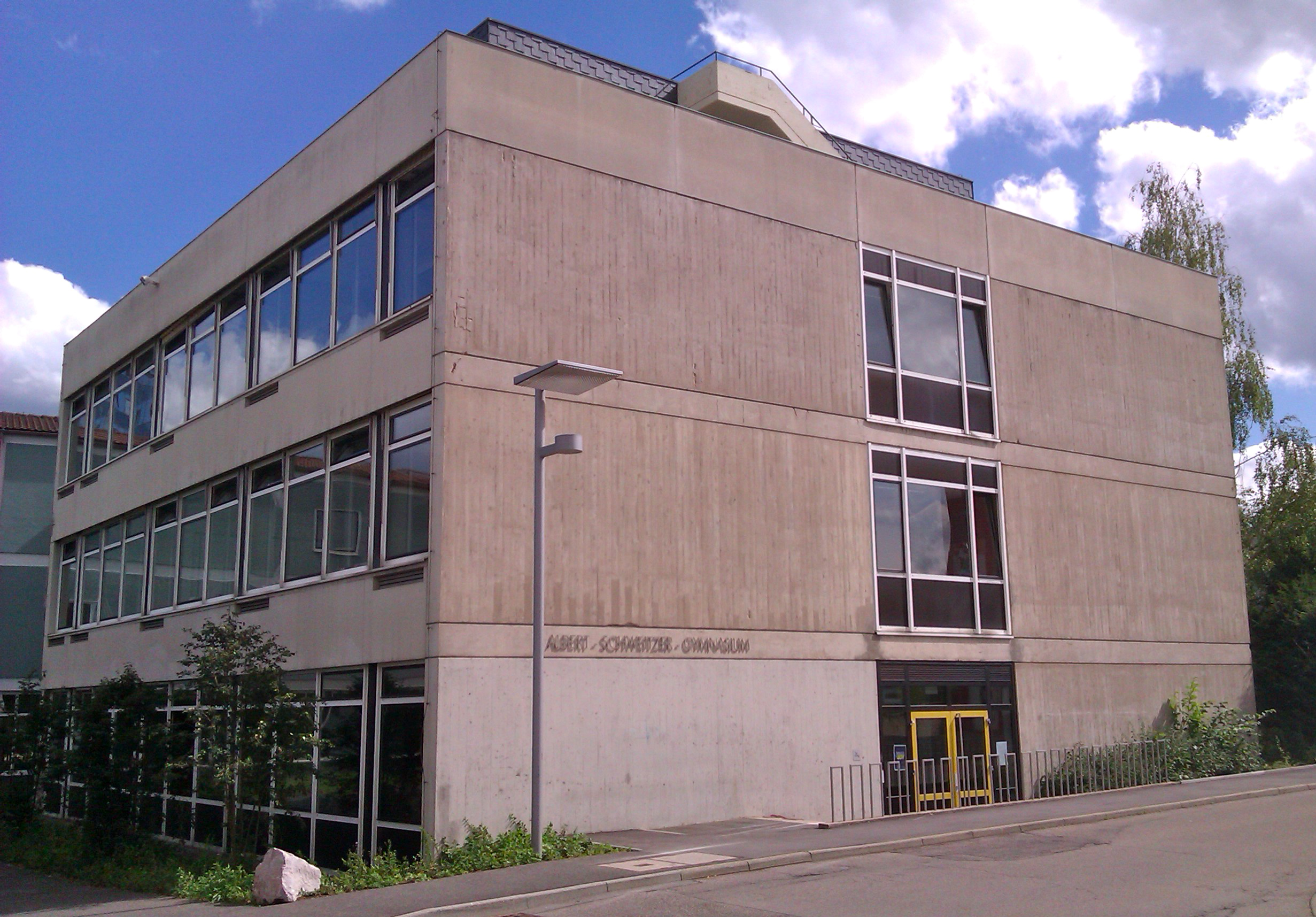 Albert-Schweitzer-Gymnasium in Leonberg, entrance building